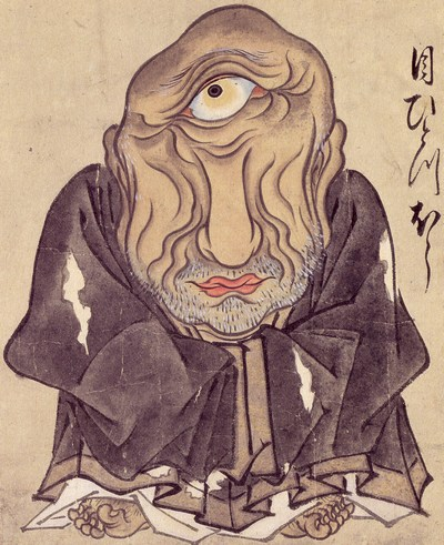 Mehitotsubou (目一つ坊, another name for Hitotsume-kozō) from the Hyakkai-Zukan (百怪図巻)